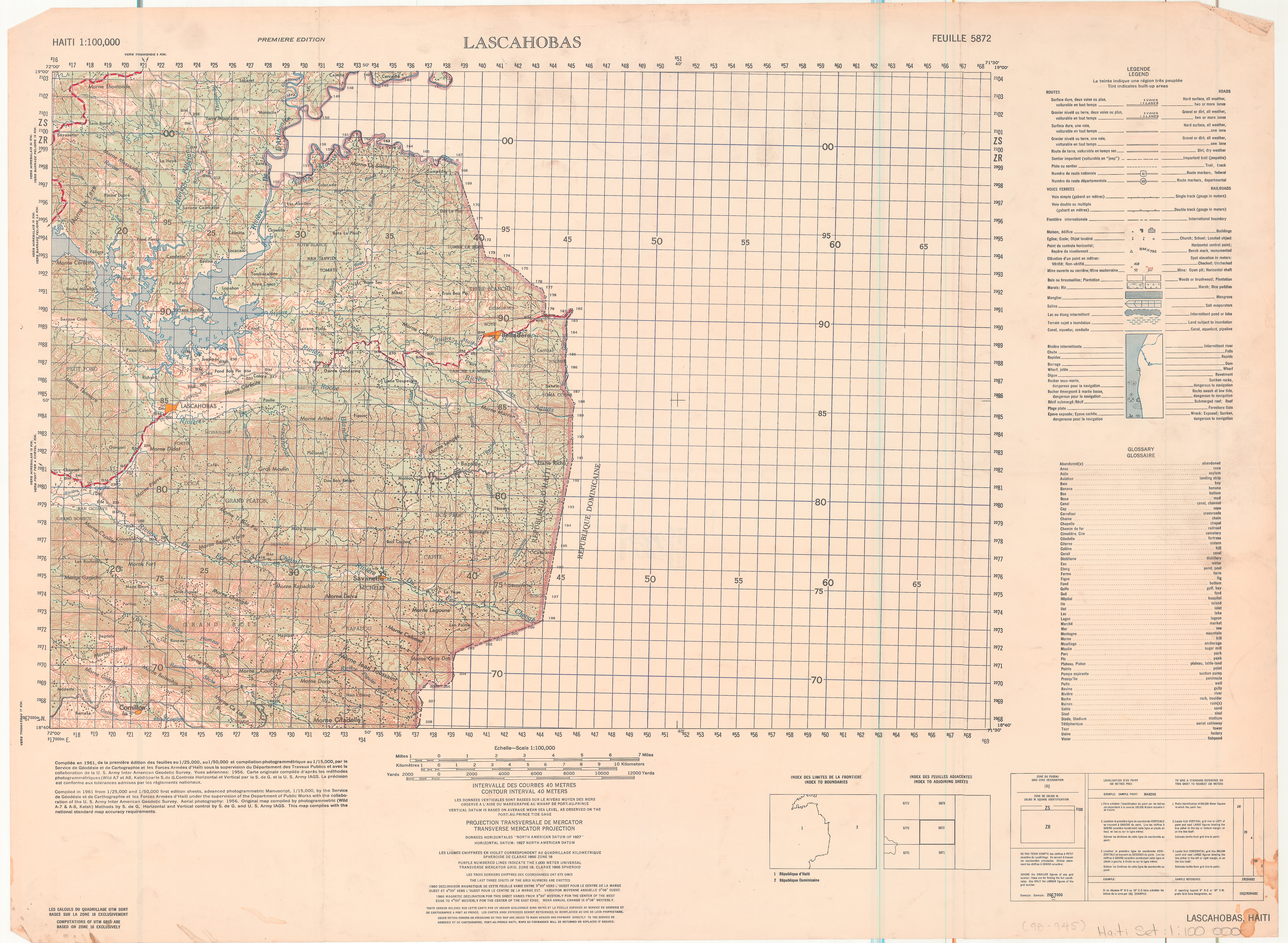 Some maps lack series statement. Some maps printed by Army Map Service, Corps of Engineers. Standard maps series designation: Series E632 Includes index to adjacent sheets, glossary, explanatory chart. Some maps have index to boundaries. Language: English and French. Relief shown by contours and spot heights.